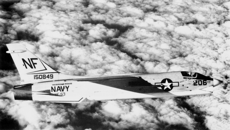 A U.S. Navy Vought F-8J Crusader (BuNo 150849) from Fighter Squadron VF-53 Iron Angels in flight. VF-53 was assigned to Carrier Air Wing 5 (CVW-5) aboard the aircraft carrier USS Bon Homme Richard (CVA-31) for a deployment to Vietnam from 20 April to 12 November 1970.